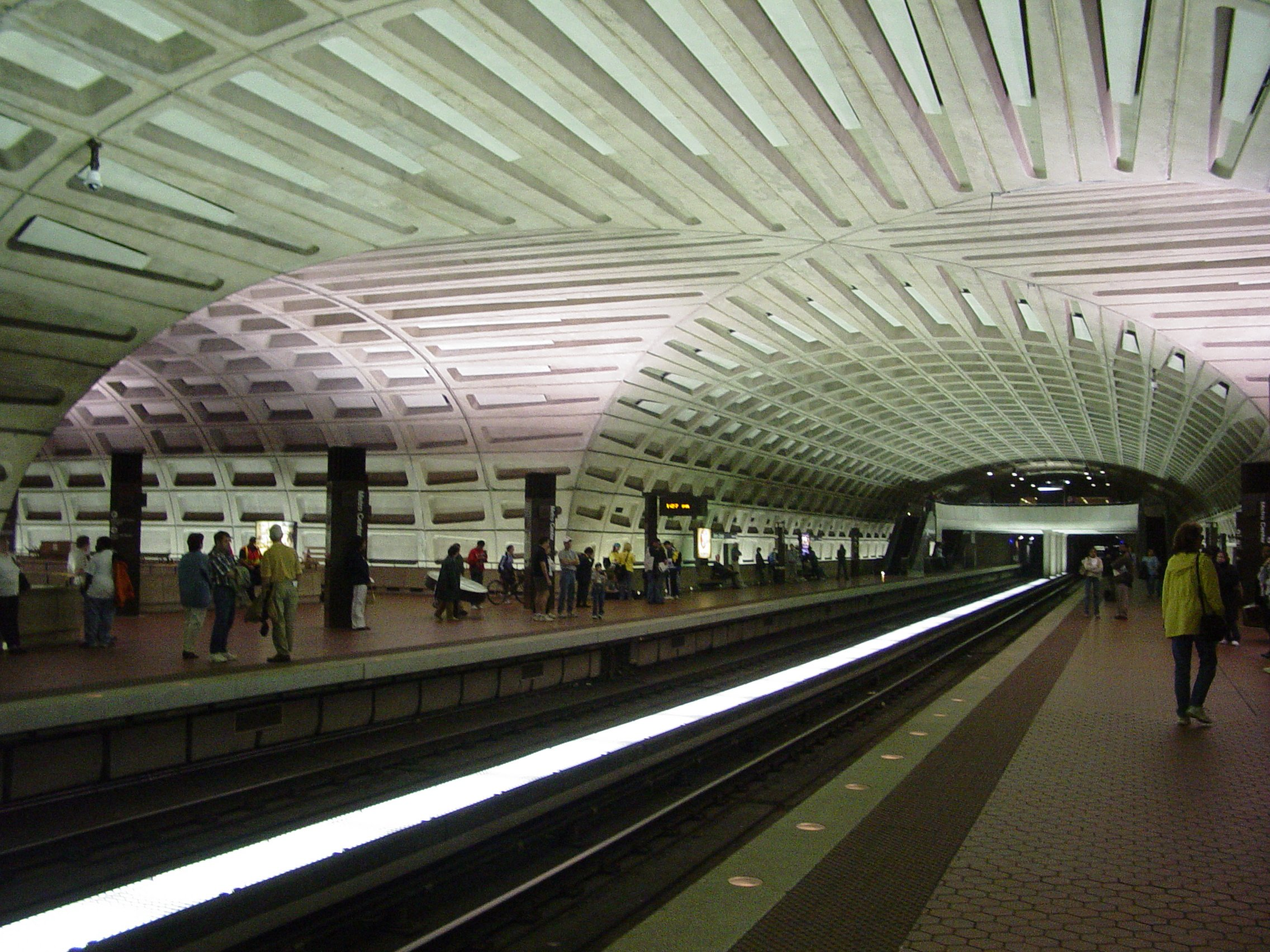 Cross-vault at Metro Center station